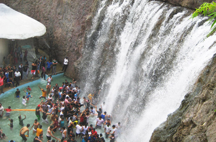 Photo of Vismaya waterfall